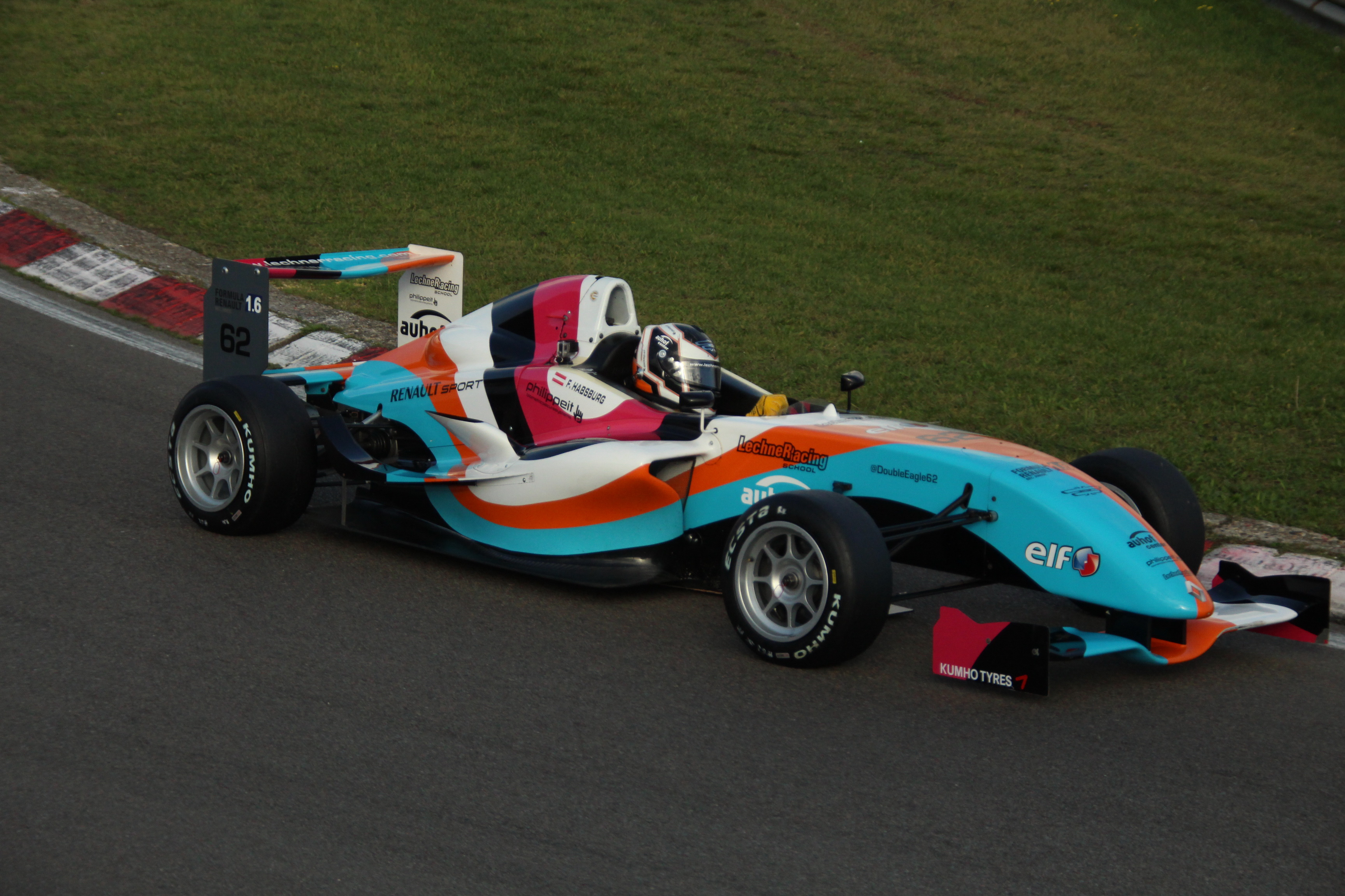 Ferdinand Habsburg FR 1.6 NEC